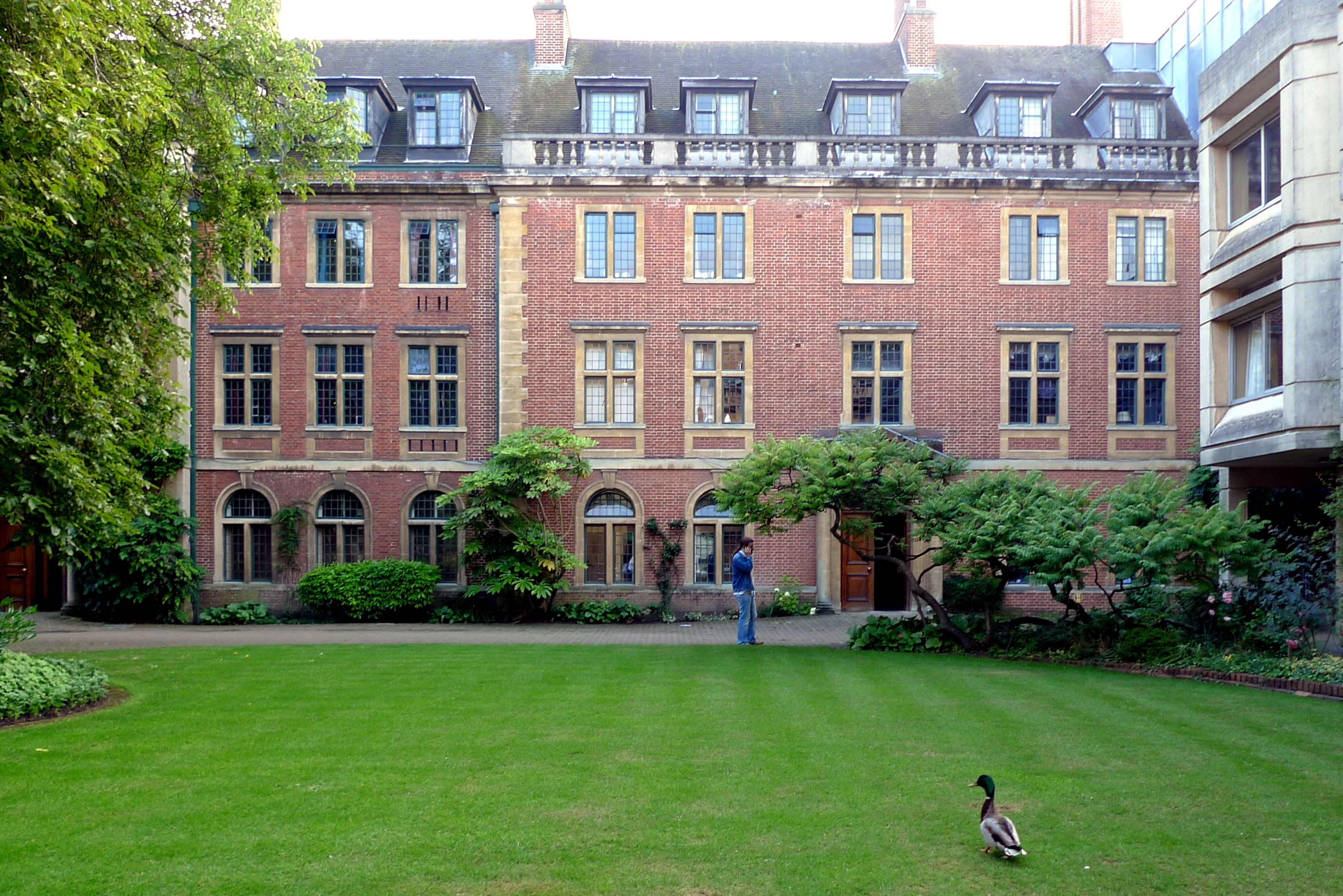 Besse staircase at St Peter's College, Oxford.